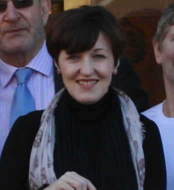 Kacey Ainsworth (Little Mo from EastEnders) presents Herts Air Ambulance's Fundraising Coordinator, Dawn, with a cheque for £2500 which Ware Joggers raised with their 10 Mile Race in October 2011. Mick Nicholls MD of Ware Heating & Bathroom Supplies Ltd and the event's sponsor, hosted the handover.